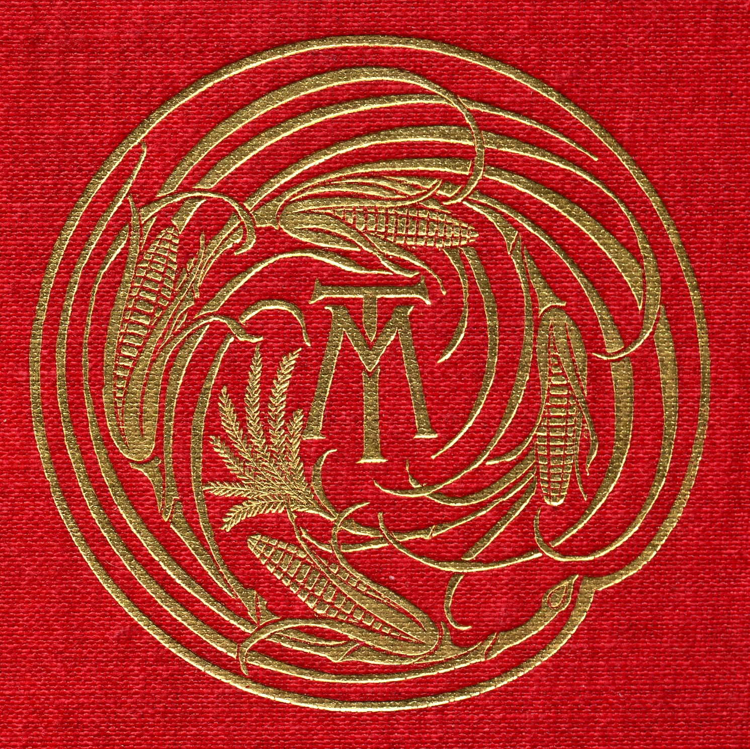 Logo on cover of 1896 edition of The American Claimant by Mark Twain. Book was printed by Harper & Brothers publishers (New York and London) in 1899.